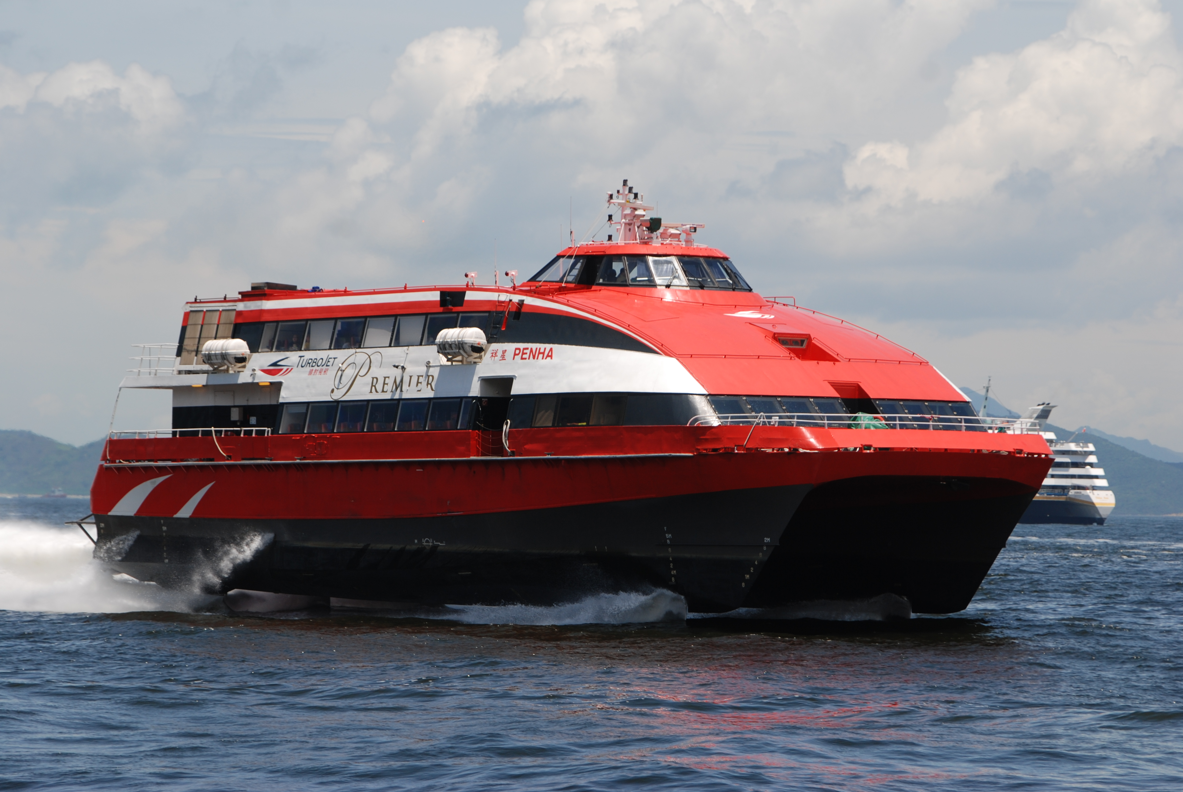 TurboJET's Penha Foilcat catamaran hydrofoil